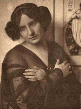 Portrait of Olga Máté Hungarian Museum of Photography LocationKecskemétCoordinates46° 54′ 21″ N, 19° 41′ 40″ E Website control : Q18621185 VIAF: 137246771 ISNI: 0000 0001 2166 1383 SUDOC: 035328711 BNF: 135153689 (Accession number: 2005.12850)